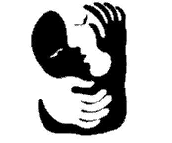 Center for social policy and gender studies